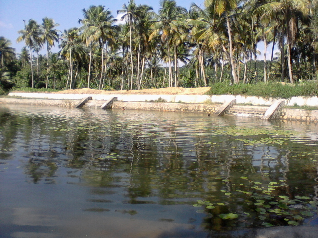 Vennichira Kulam